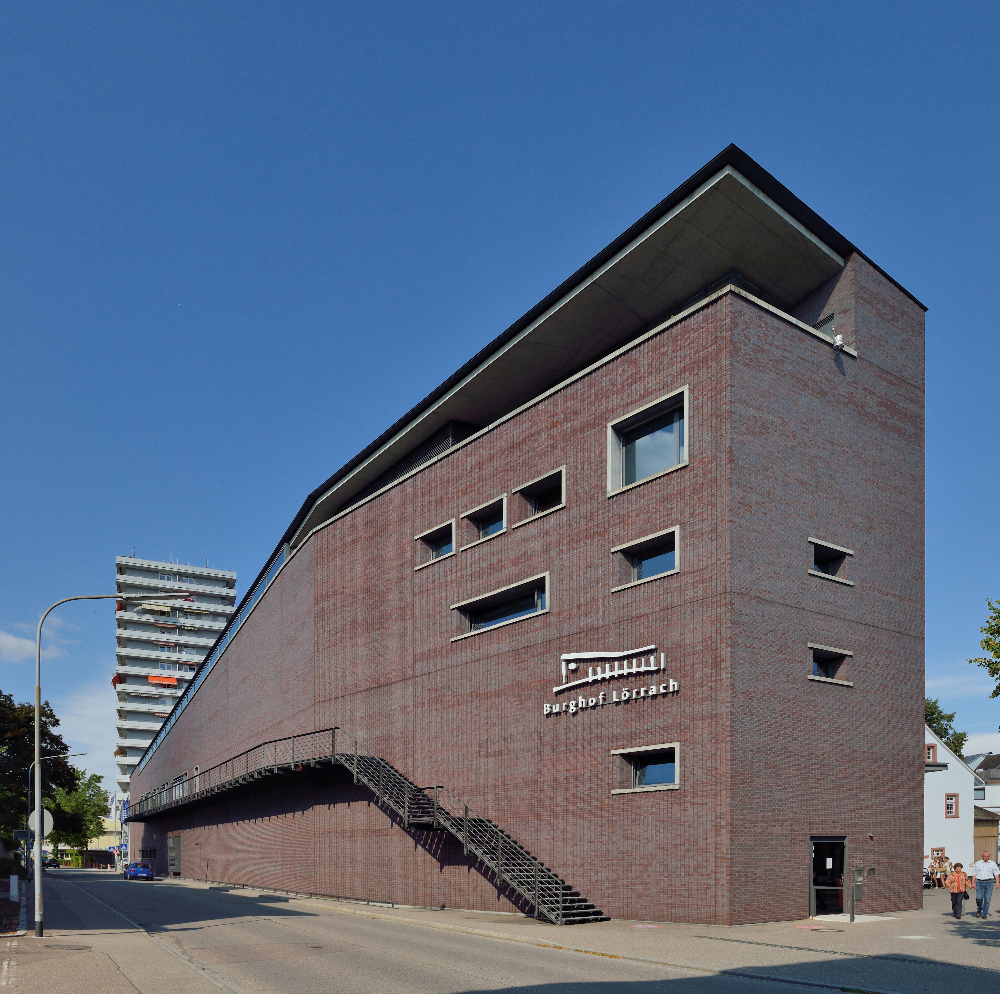 "Burghof Lörrach"